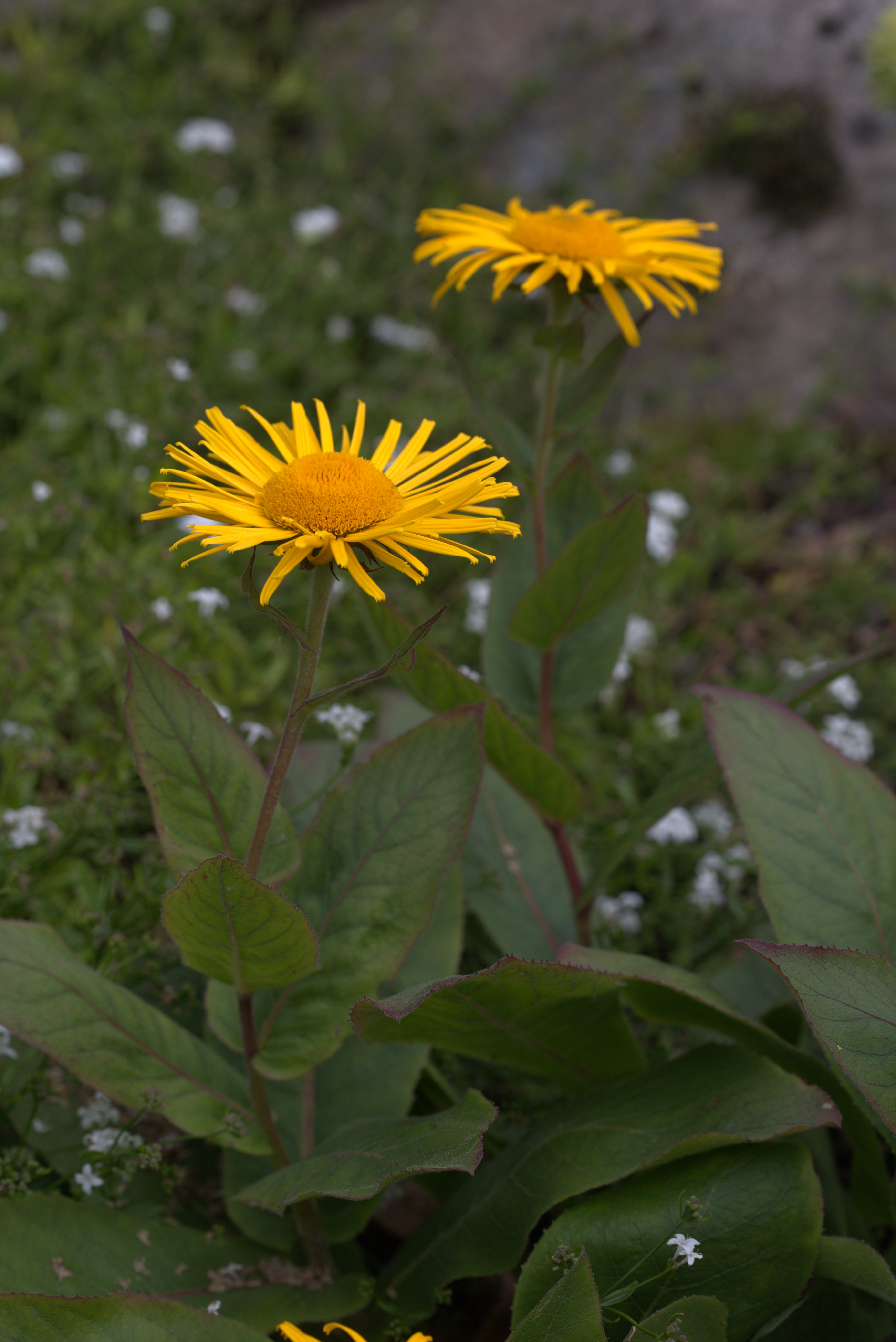 Telekia speciosissima in Gothenburg Botanical Garden 2015. Plant id: 2008-679 s Z.